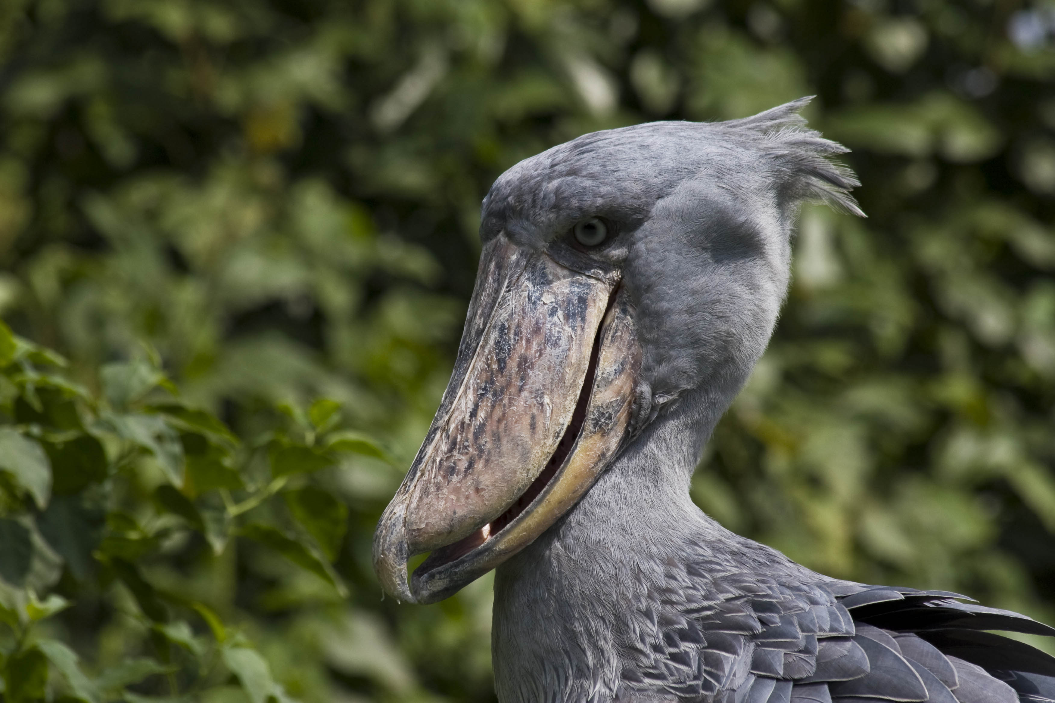 Shoebill (Balaeniceps rex) in Uganda